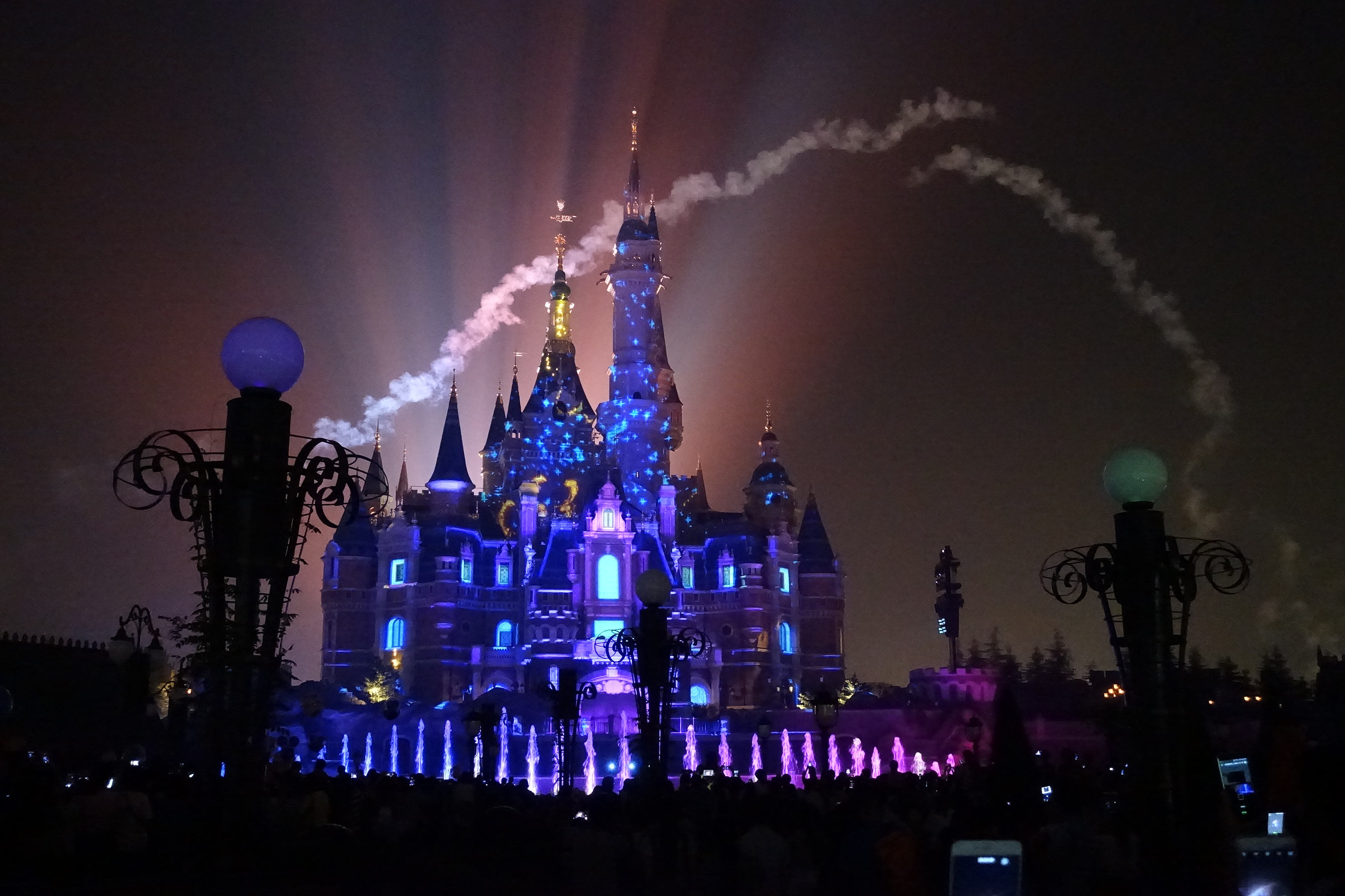 Ignite the Dream - A Nighttime Spectacular of Magic and Light